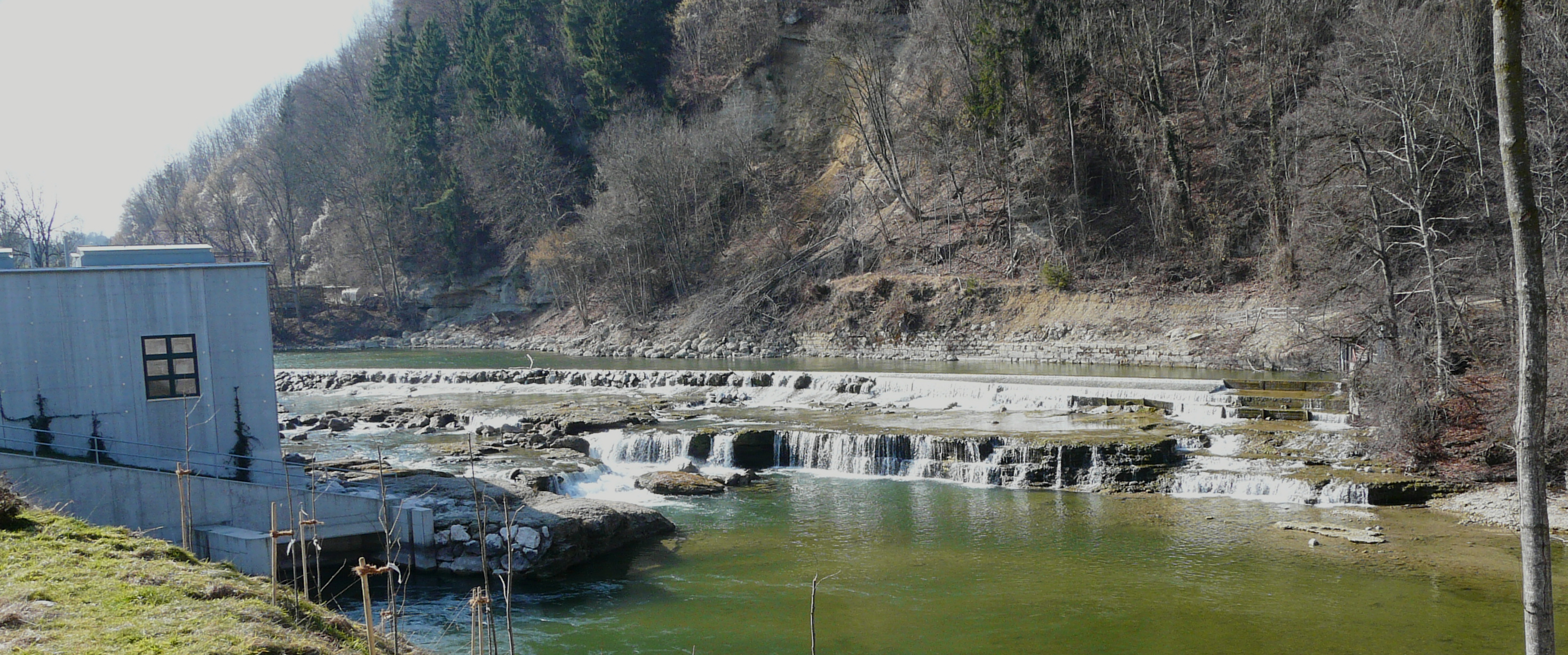 geotope, waterfall, conglomerate, Geotop Nummer: 189R020